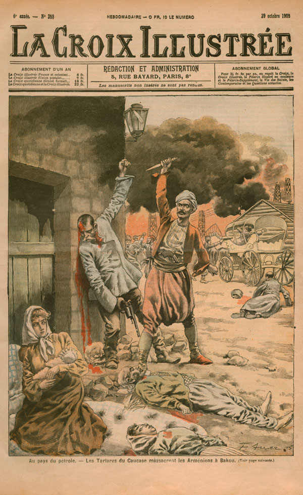 Cover page of La Croix Illustree with caption that reads Massacres of Armenians by Tatars in Baku.